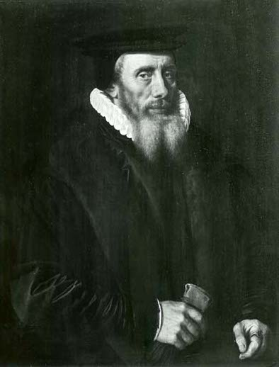 Johannes Goropius Becanus